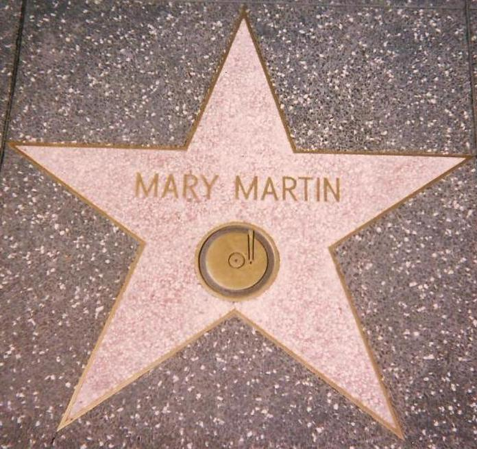 Mary Martin's star for recording, Hollywood Walk of Fame, 1560 Vine Street, Hollywood, Los Angeles, CA.